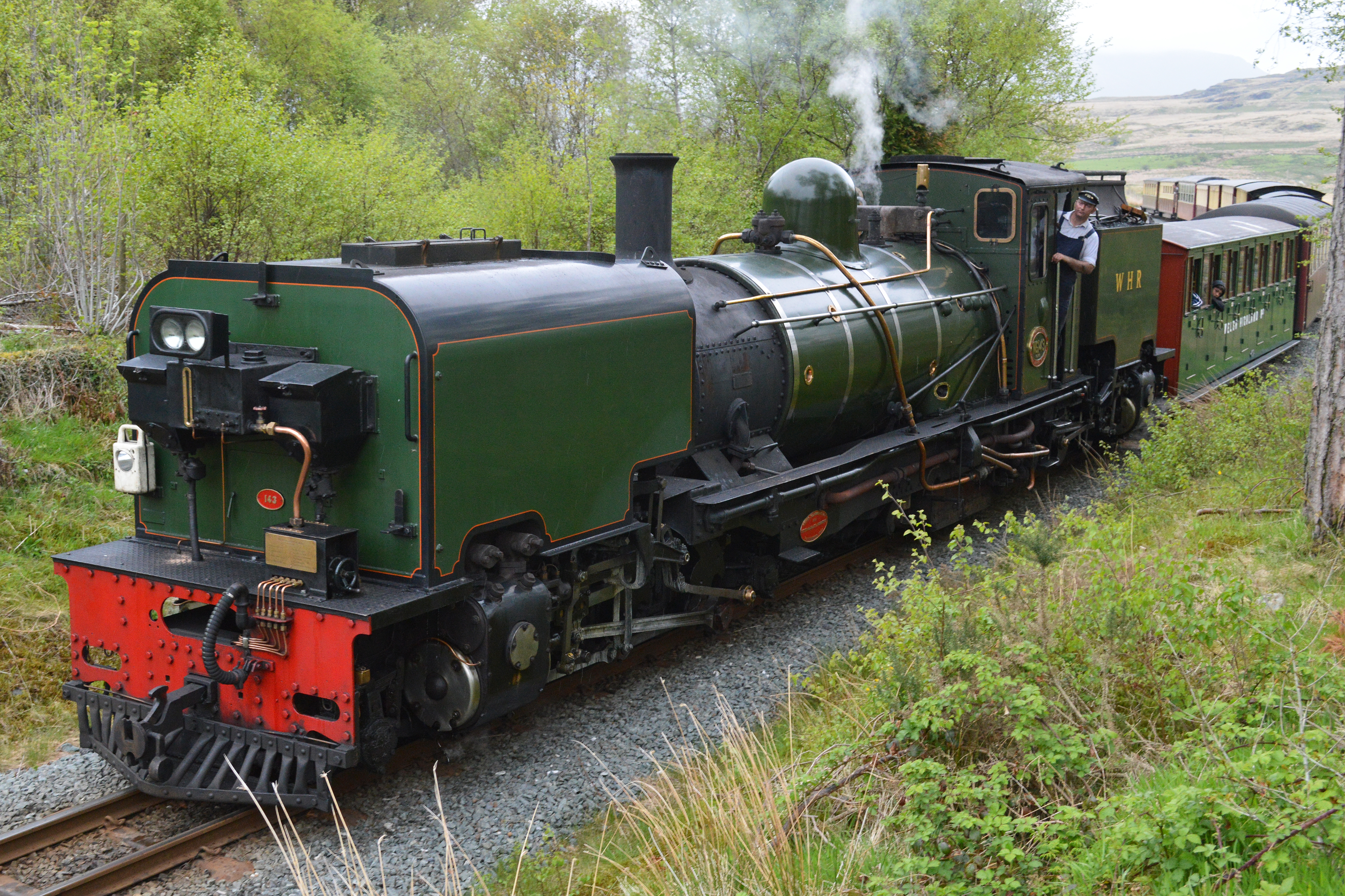 No143 heads South towards Beddgelert, just after passing Pitt's Head Summit. This was the very last loco built by Beyer-Peacock in Manchester and entered service in 1958. Welsh Highland Railway. 28-5-2013